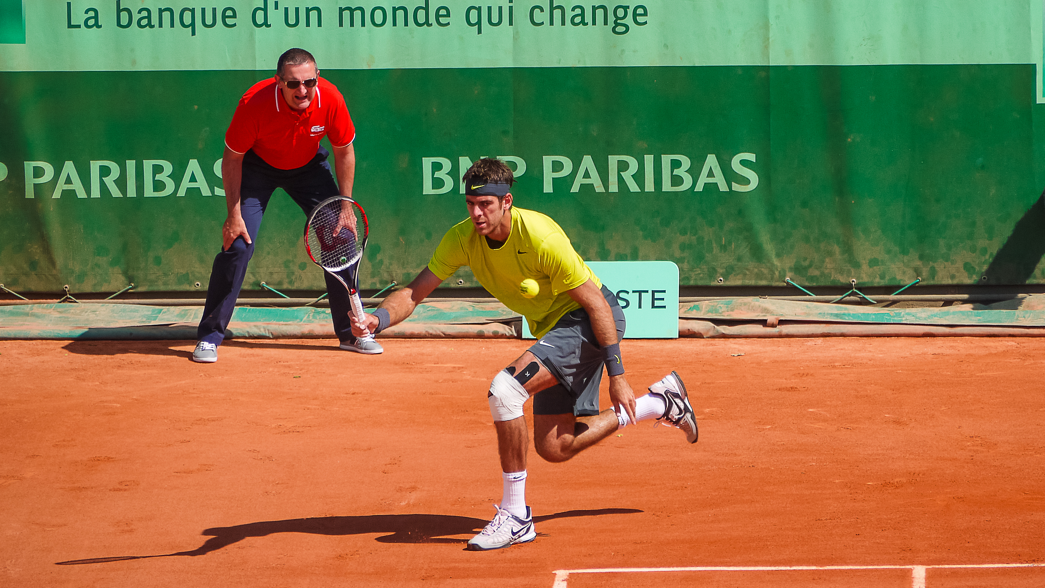 2ème tour Roland Garros 2012 : Juan Martin Del Potro (ARG) def. Edouard Roger-Vasselin (FRA) 2012 Roland Garros.